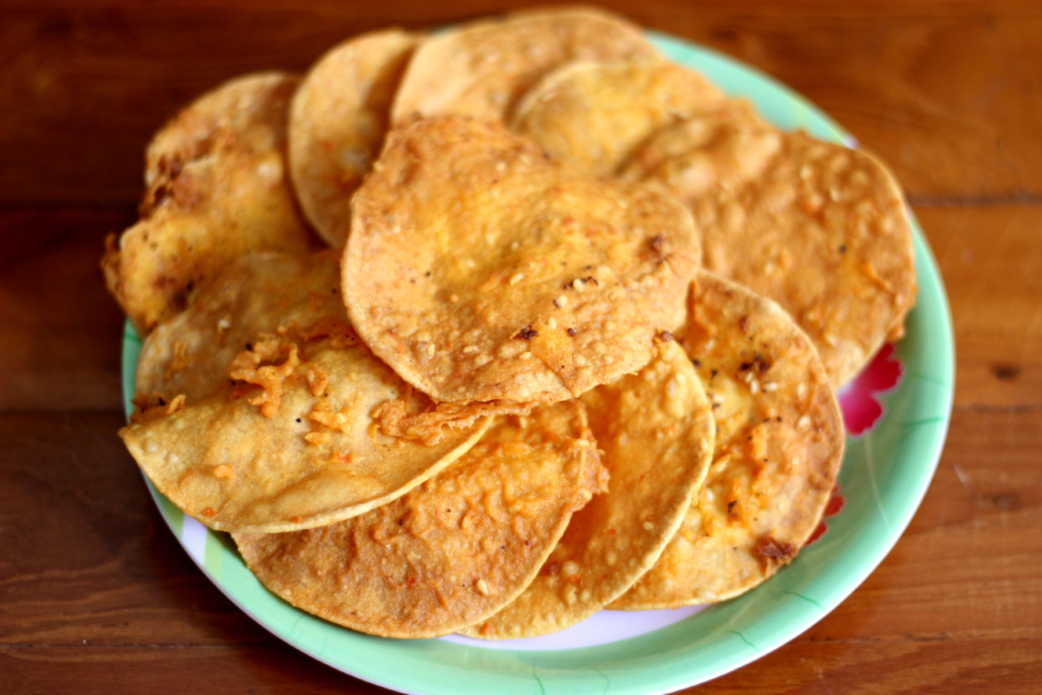 Pappadavada is a snack commonly cooked in Kerala.